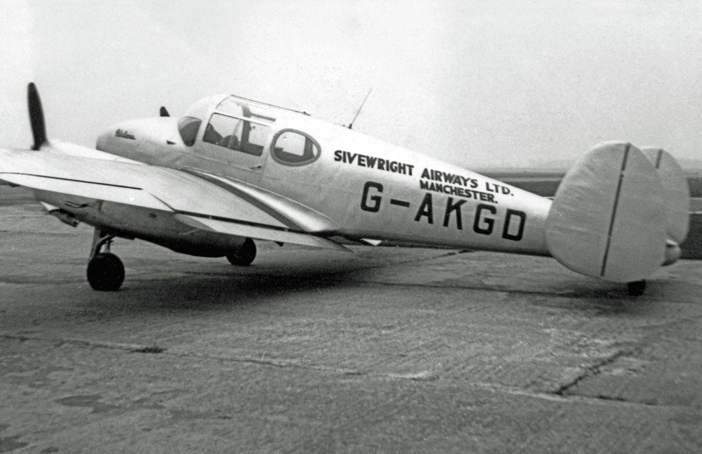 Miles M.65 Gemini 1A G-AKGD of Sivewright Airways at Manchester Airport in 1949